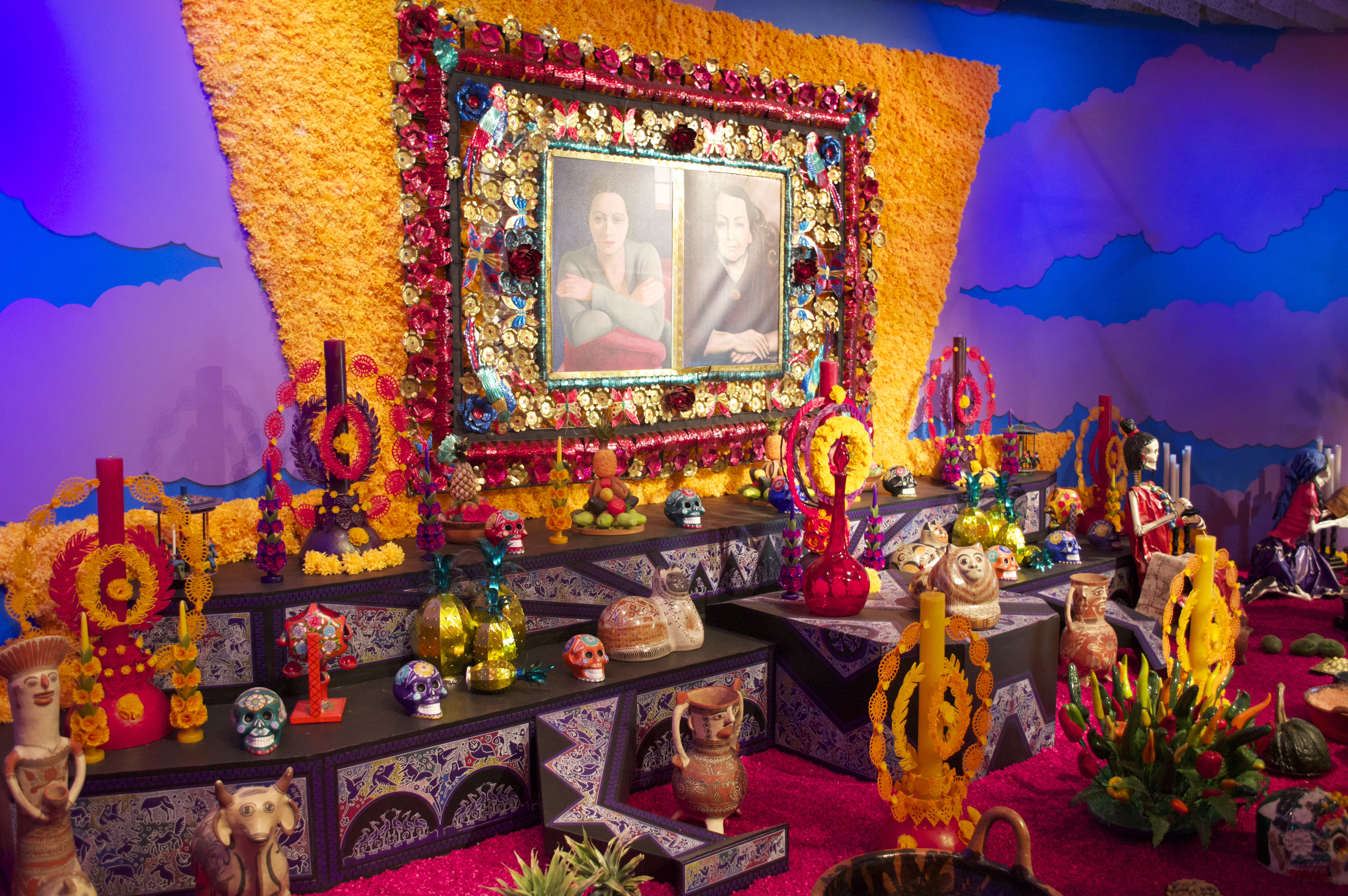 Altar dedicado para Dolores Olmedo at Ofrenda Museo Dolores Olmedo